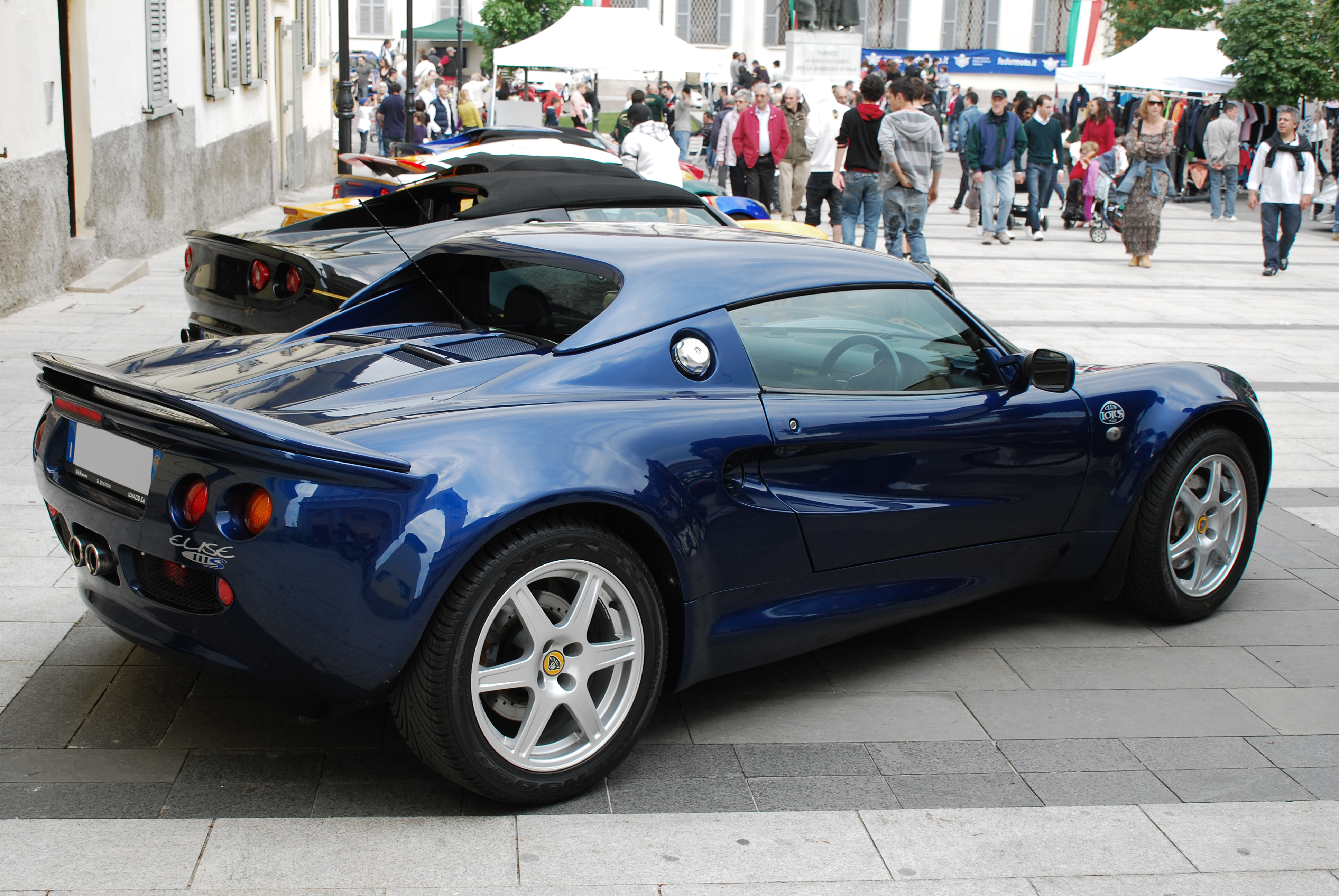 Elise S1 111S